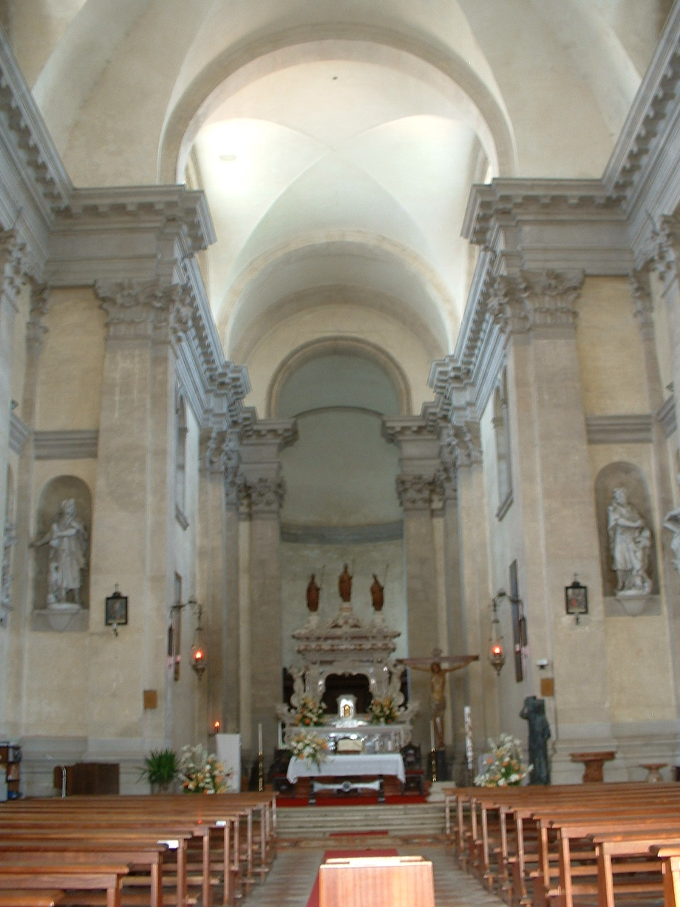 San Nicolò al Lido church is located in Venice, Italy. This is a photograph of the interior of the San Nicolò al Lido church. Photo taken by Necrothesp, 17 May 2004.